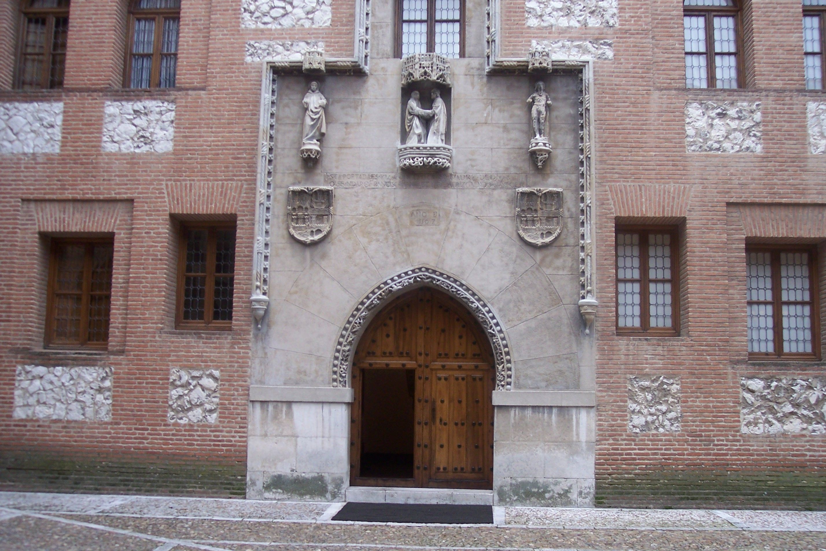 Portada en el Patio de Armas del Castillo de La Mota en Medina del Campo, Valladolid (España). Reproduction of the door of the Hospital of La Latina at the Castle of La Mota, Valladolid, Spain. The central figures represent Queen Isabella (the Cathollic Queen) and her teacher and advisor, Beatriz Galindo, "La Latina"). The original is at the Architecture School of the Polythecnic University of Madrid (U.P.M.).